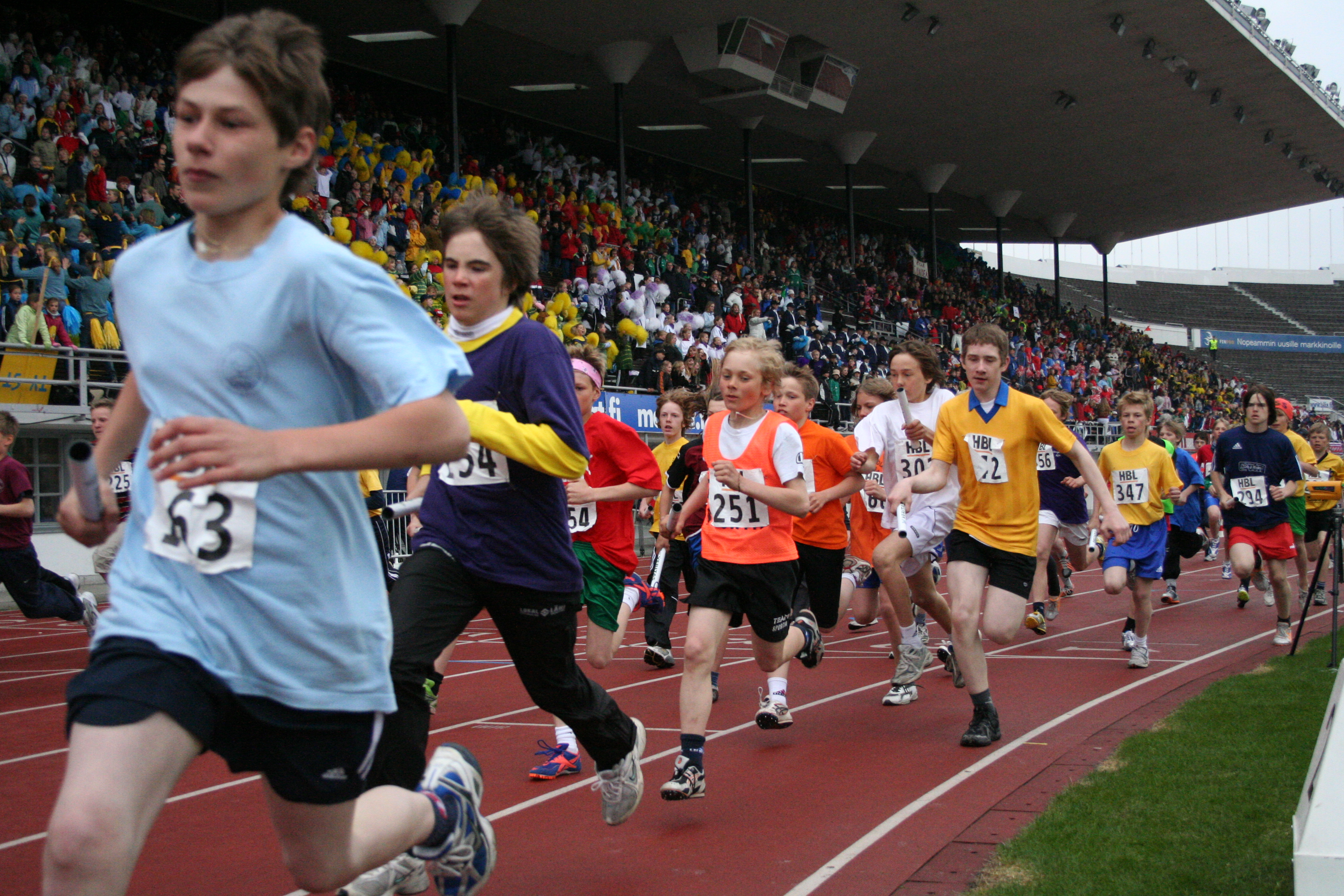 Stafettkarnevalen, a relay-competition between (swedish) schools in Finland held annualy at the Olympic Stadium in Helsinki. Photo by Jonny Smeds.